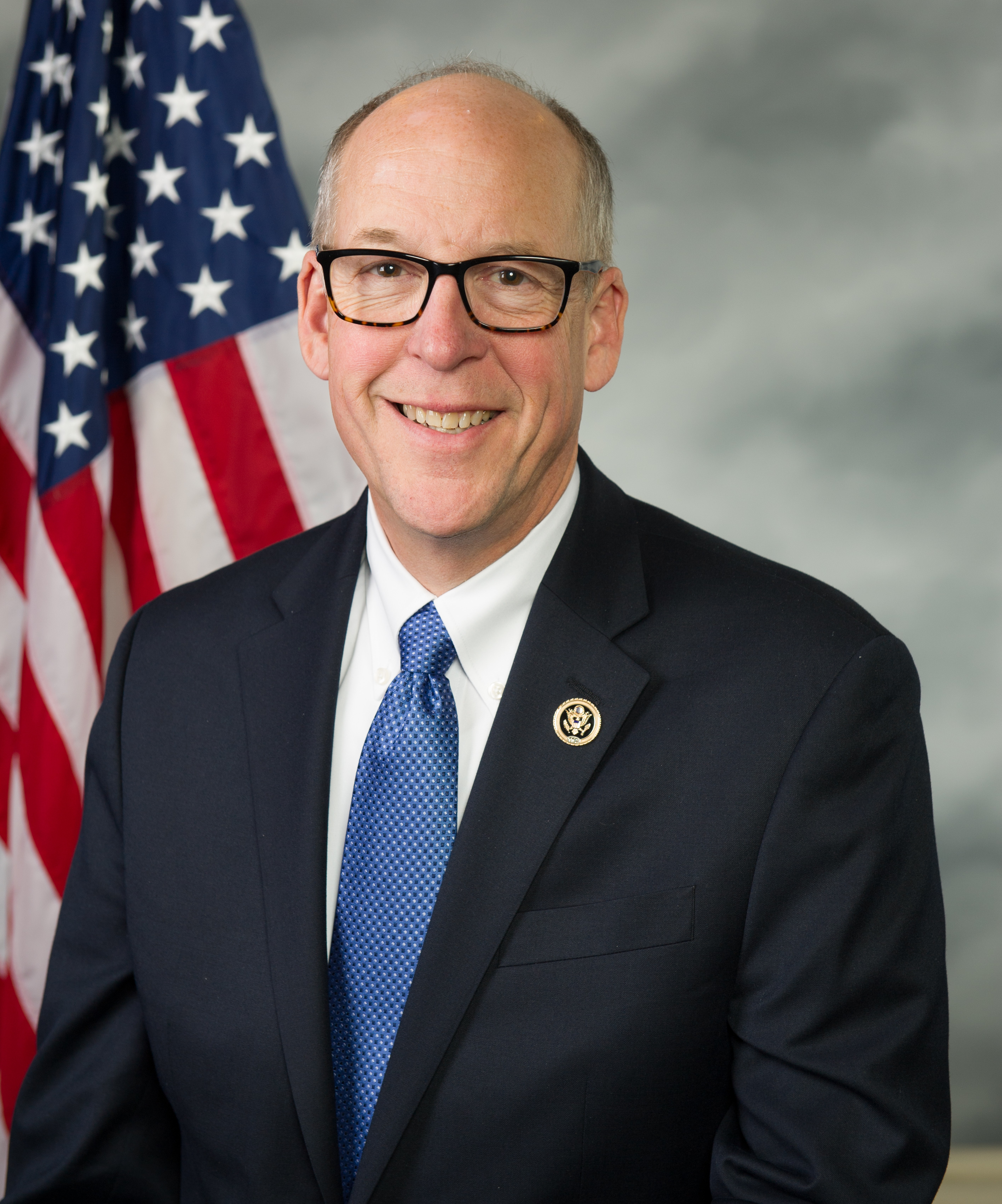 Greg Walden, 114th Congress